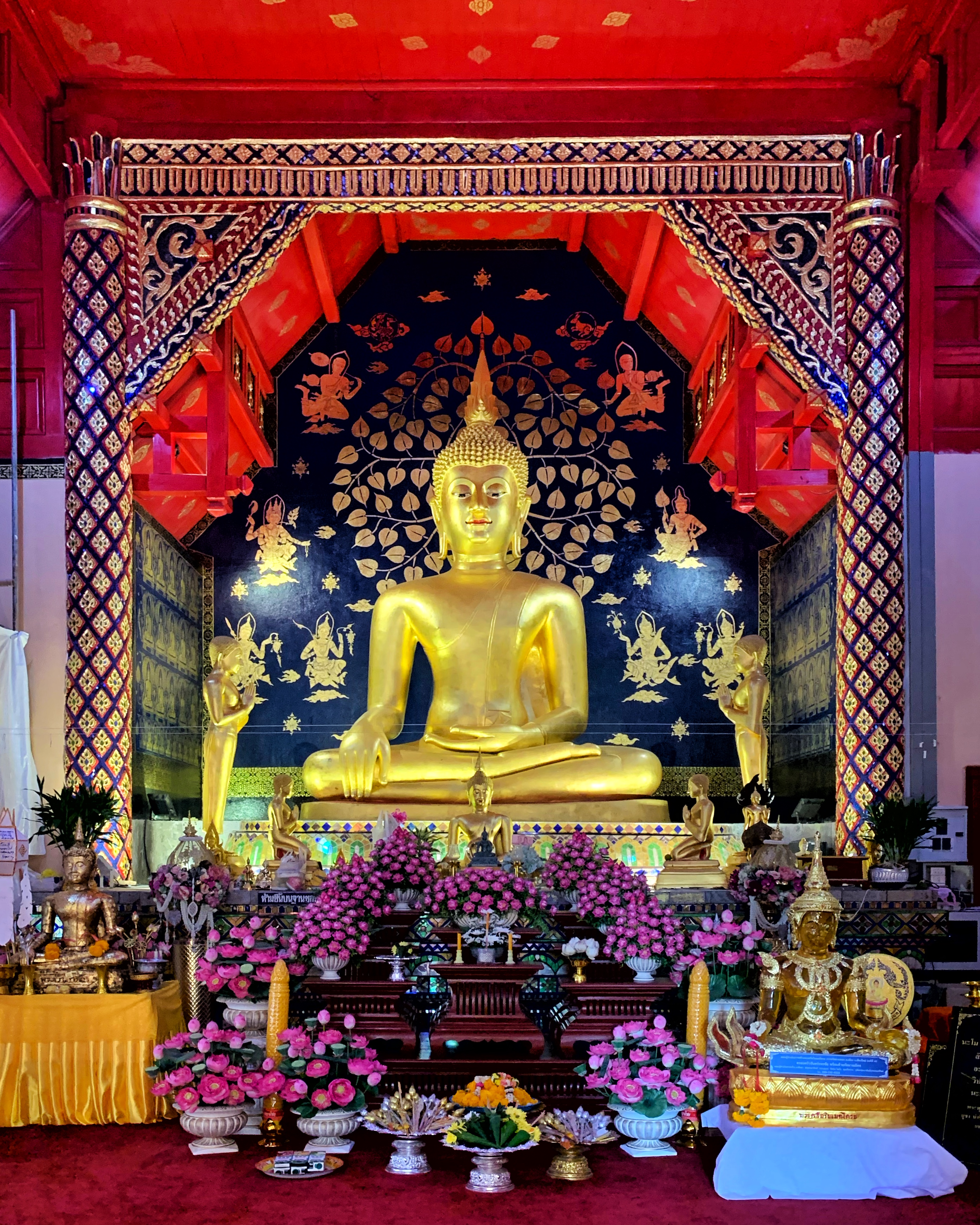 Wat Suan Dok Buddha Phra Chao Kao Teu